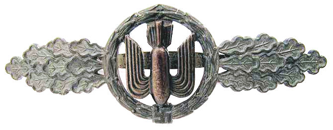 German Front Flyer Clasp - 1941 (bomber)